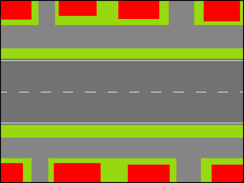 Simplified map of a main road with service roads